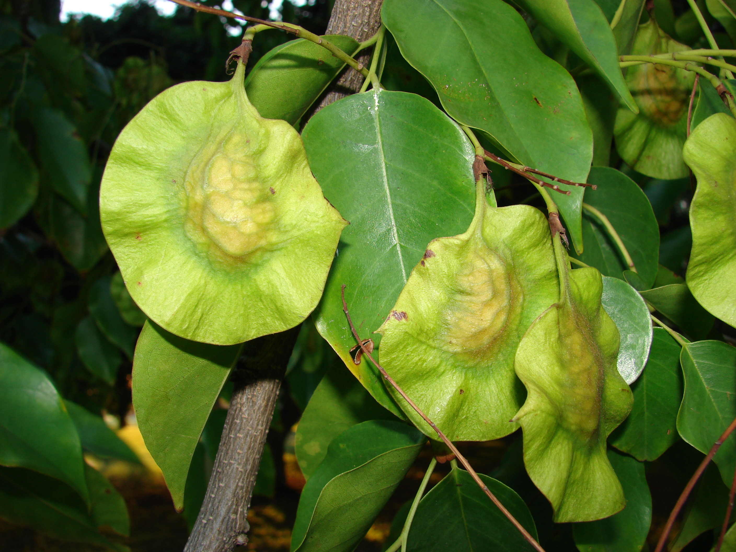 Pterocarpus indicus (leaves and fruit). Location: Oahu, Ala Moana Beach Park